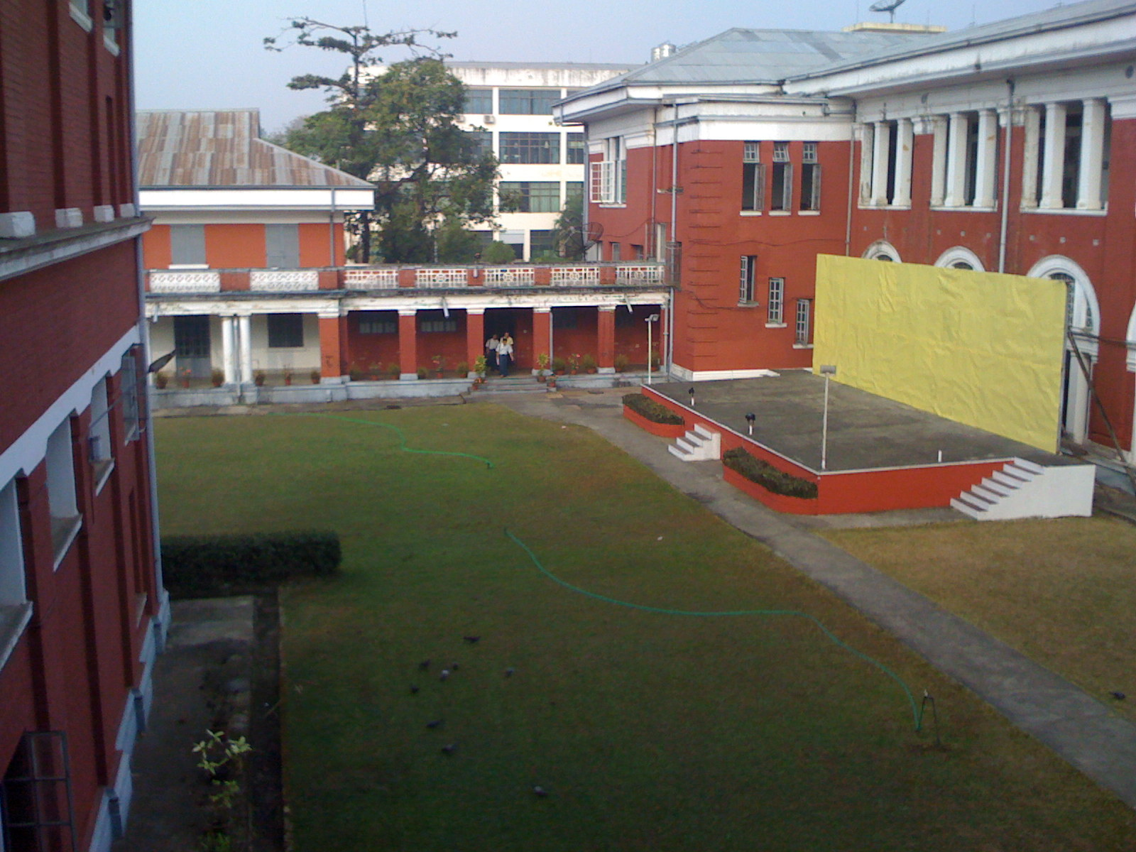 University of Medicine-1, inside